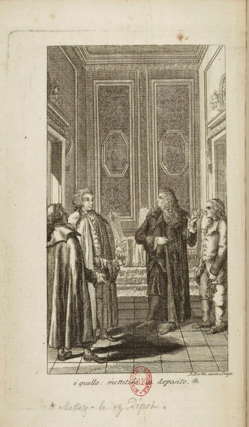 Frontispiece illustration of Casanova's History of my Flight from the Prisons of the Republic of Venice. (1787, dated 1788). "It's him. Place him in custody". Casanova is arrested and brought before the secretary of the State Inquisitors at the Doge's Palace (Palazzo ducale) who orders the chief jailer to place Casanova in custody. Casanova, second from left, is elegantly dressed in this engraving. He explains in History of my Life that when he was awoken and ordered to dress because he was to be brought before the Tribunal of the State Inquisitors, he, presumably out of nervousness, took his time to dress, shave, comb his hair, put on a lace shirt and his best suit ("mon joli habit") without thinking or talking. (Histoire de ma Vie, La Pléiade, 2013, Tome troisième, XIII, p. 901.)